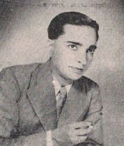 Y. V. Rao (1903 — 1973), a South Indian film producer, director, thespian, screenwriter, editor and actor